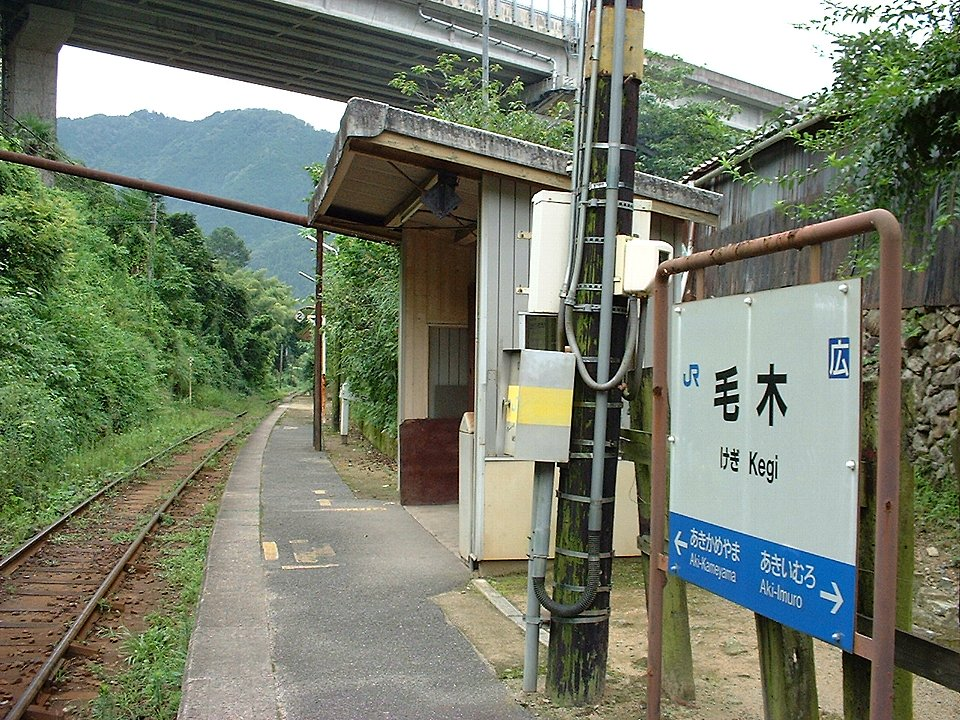 Kegi Station, looking toward Aki-Kameyama Station, on the suspended part of the Kabe Line, formerly on the JR West Kabe Line in Hiroshima, Hiroshima Prefecture, Japan.